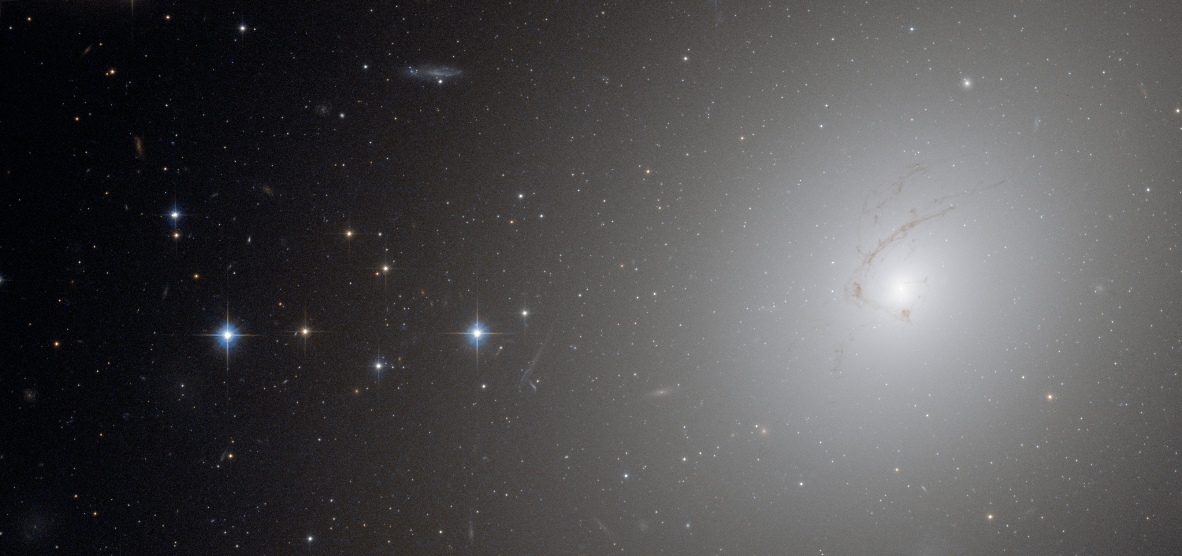 This picture, taken by Hubble’s Advanced Camera for Surveys, shows NGC 4696, the largest galaxy in the Centaurus Cluster. The huge dust lane, around 30 000 light-years across, that sweeps across the face of the galaxy makes NGC 4696 look different from most other elliptical galaxies. Viewed at certain wavelengths, strange thin filaments of ionised hydrogen are visible within it. In this picture, these structures are visible as a subtle marbling effect across the galaxy’s bright centre.